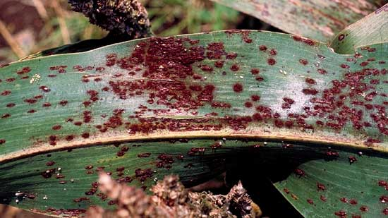 Puccinia purpurea on Sorghum bicolor Courtesy EcoPort ( : Author".